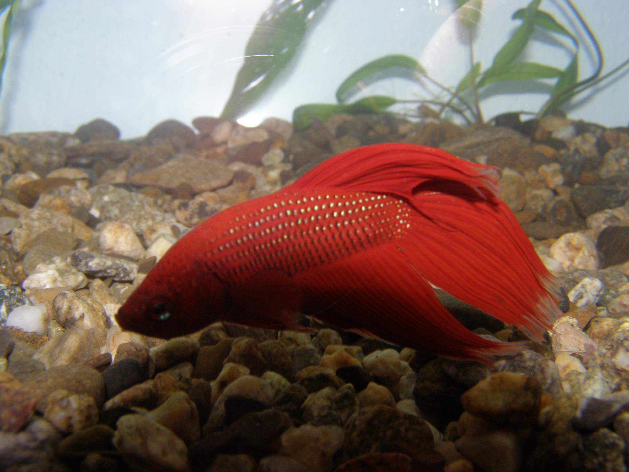 Male Siamese fighting fish (Betta splendens)